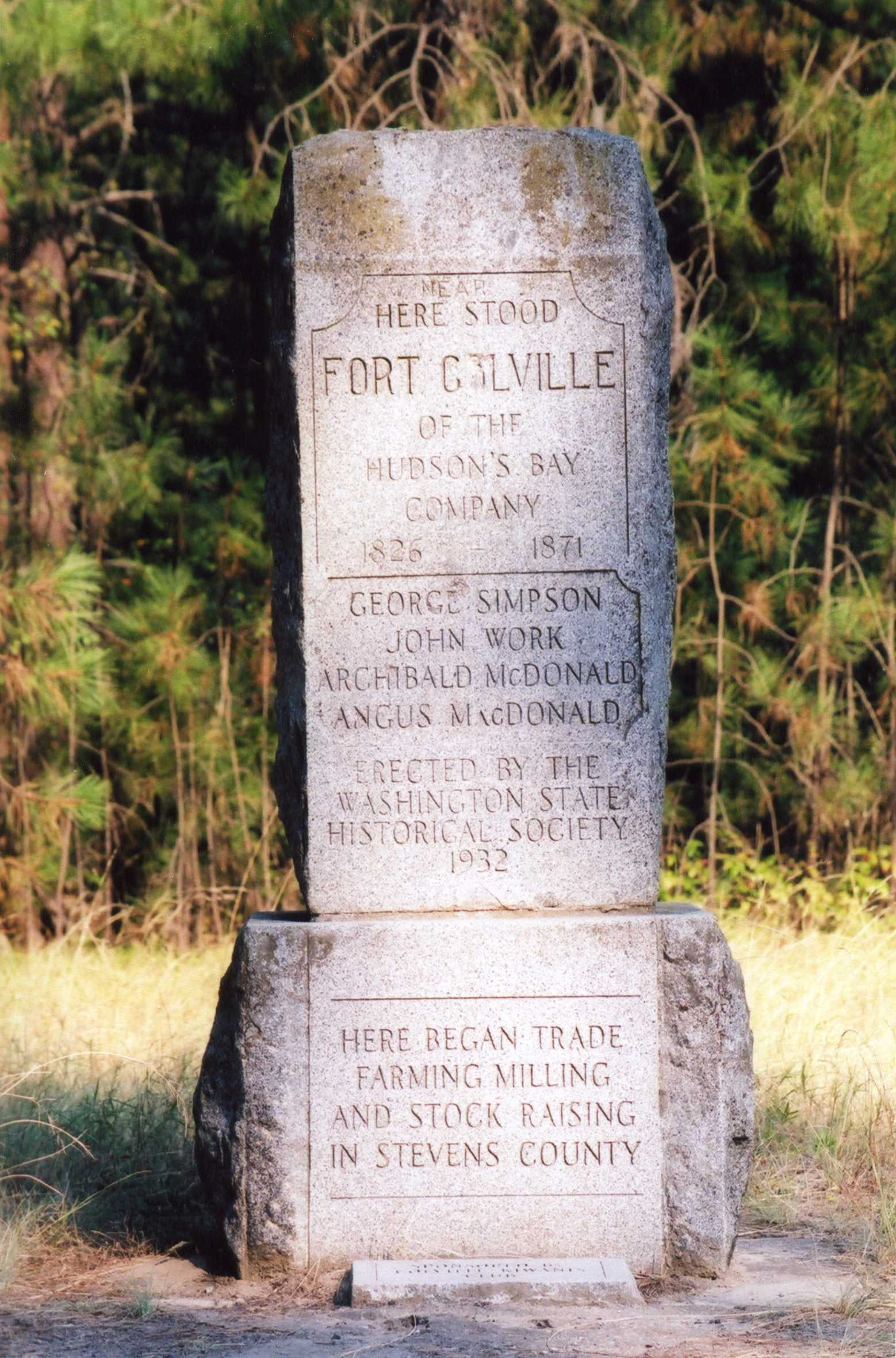 Marker at Hudsons Bay Gristmill Site on Colville River, Kettle Falls, Washington, USA.